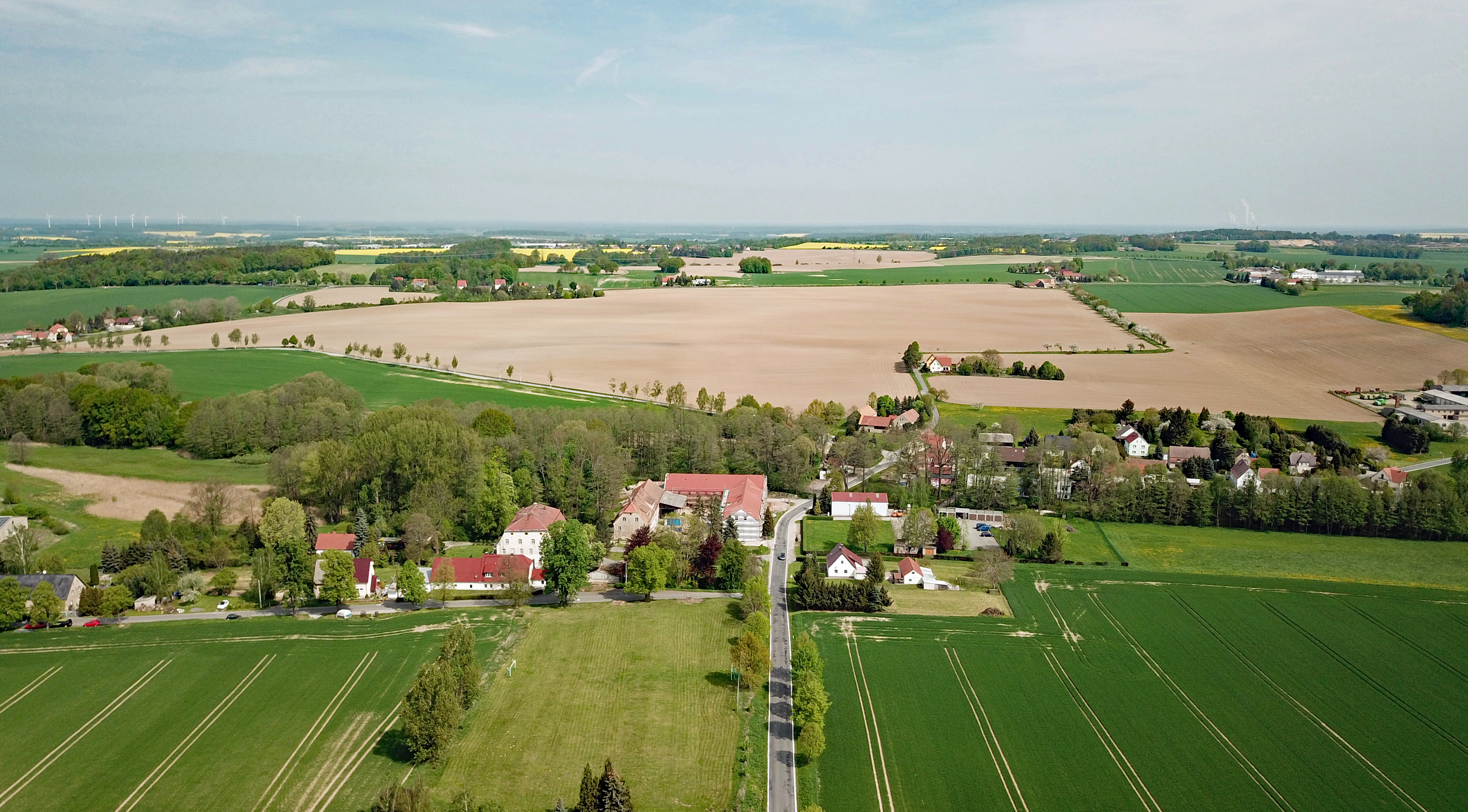 Kleinförstchen (Göda, Saxony, Germany) Hornjoserbsce: Powětrowy wobraz Małeje Boršće